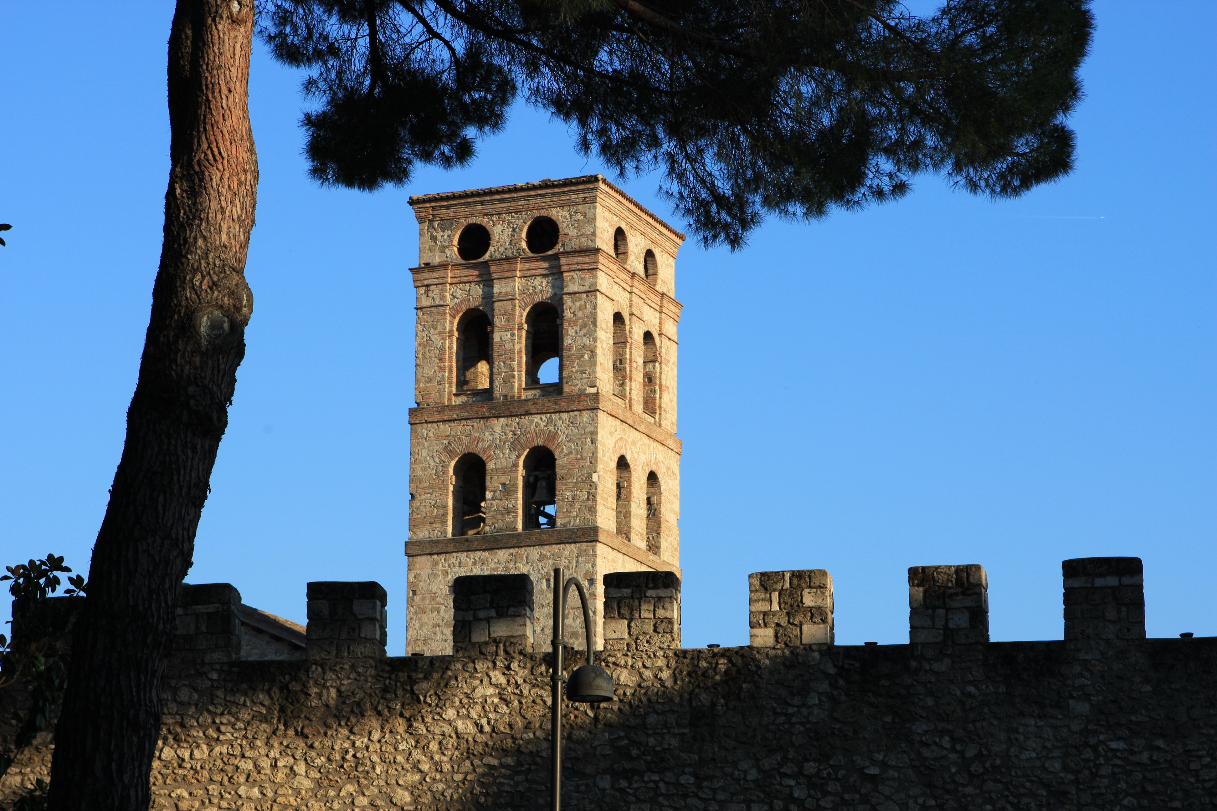 St. Domenico church's bell tower, behind the medioeval walls, as seen from Marconi square. Rieti, Lazio, Italy.